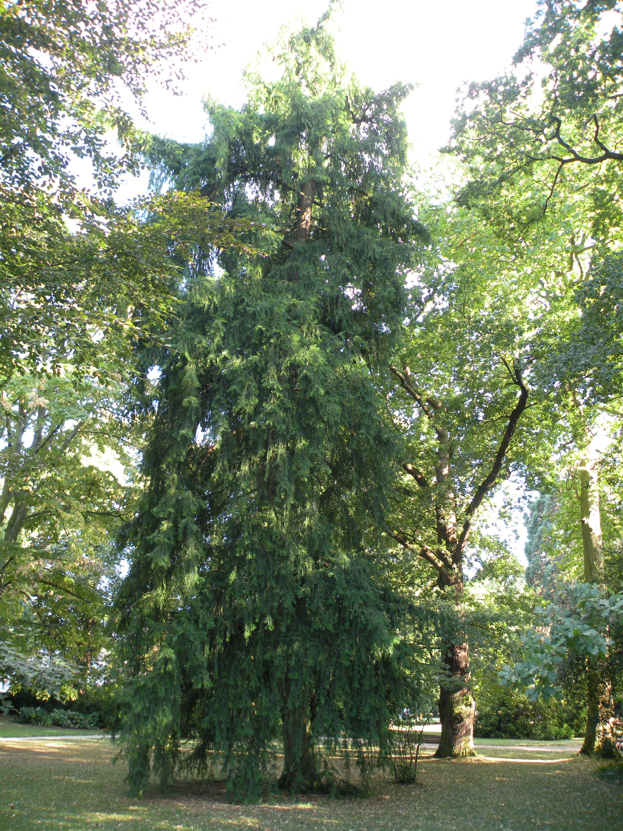 Torreya californica in Oberthür park in Rennes.